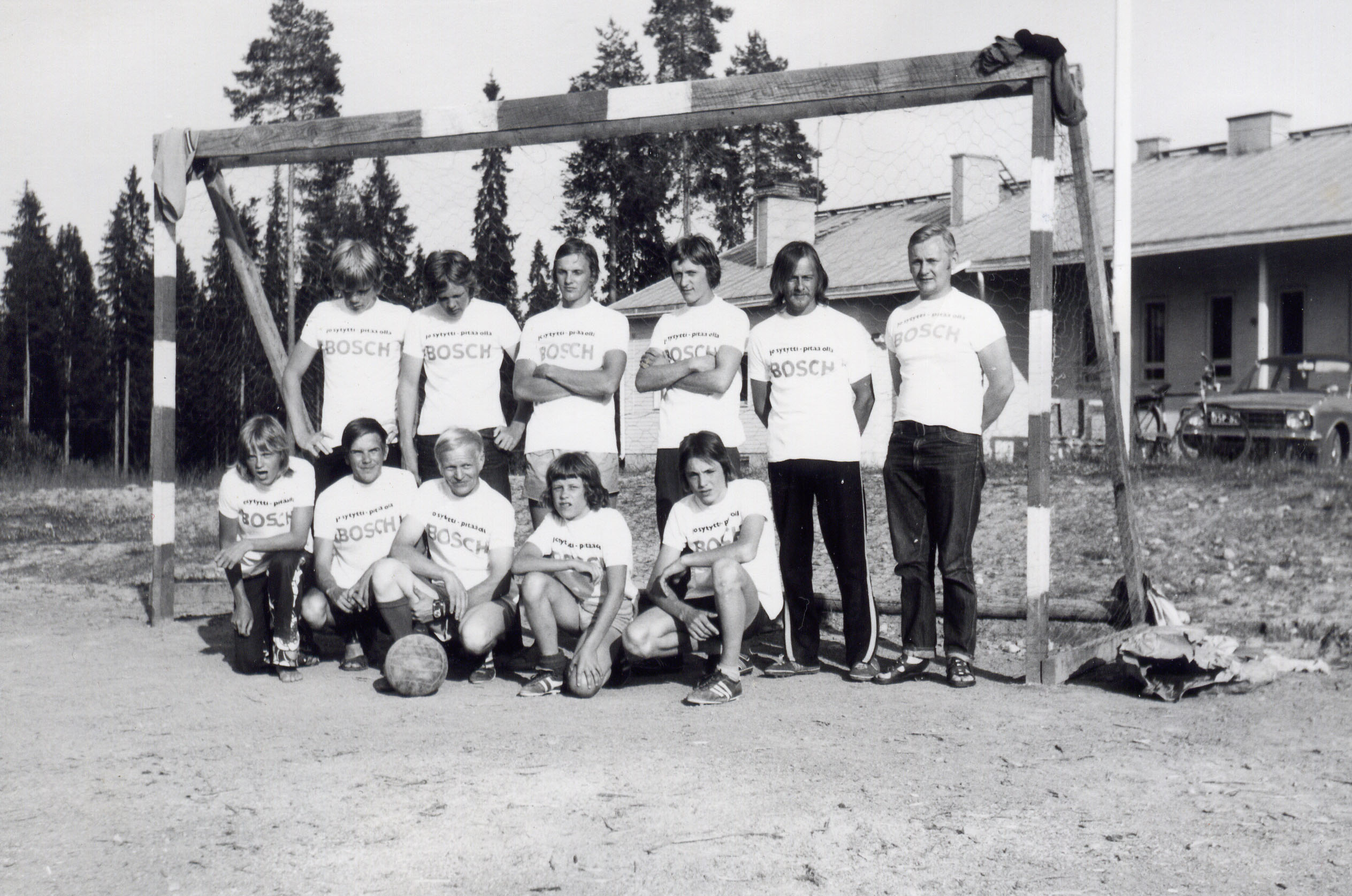 Football Club Pesiönlahti with new shirts. Suomussalmi, Finland